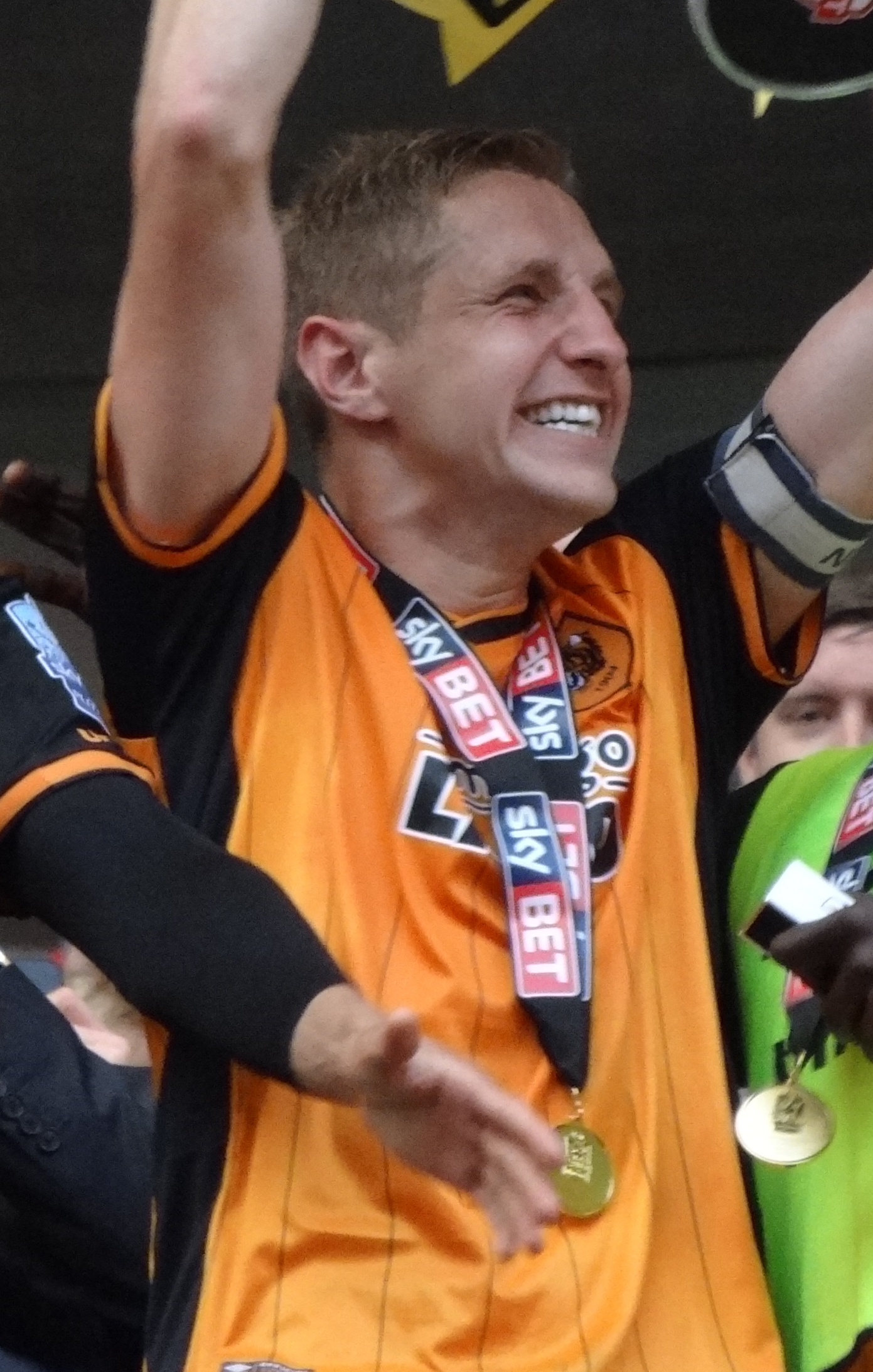 Michael Dawson after playing for Hull City against Sheffield Wednesday at Wembley Stadium, London on 18 May 2016